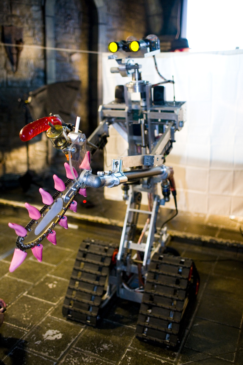 Fuckzilla at monochrom's Arse Elektronika 2007.